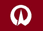 Flag of Asahitown Yamagata